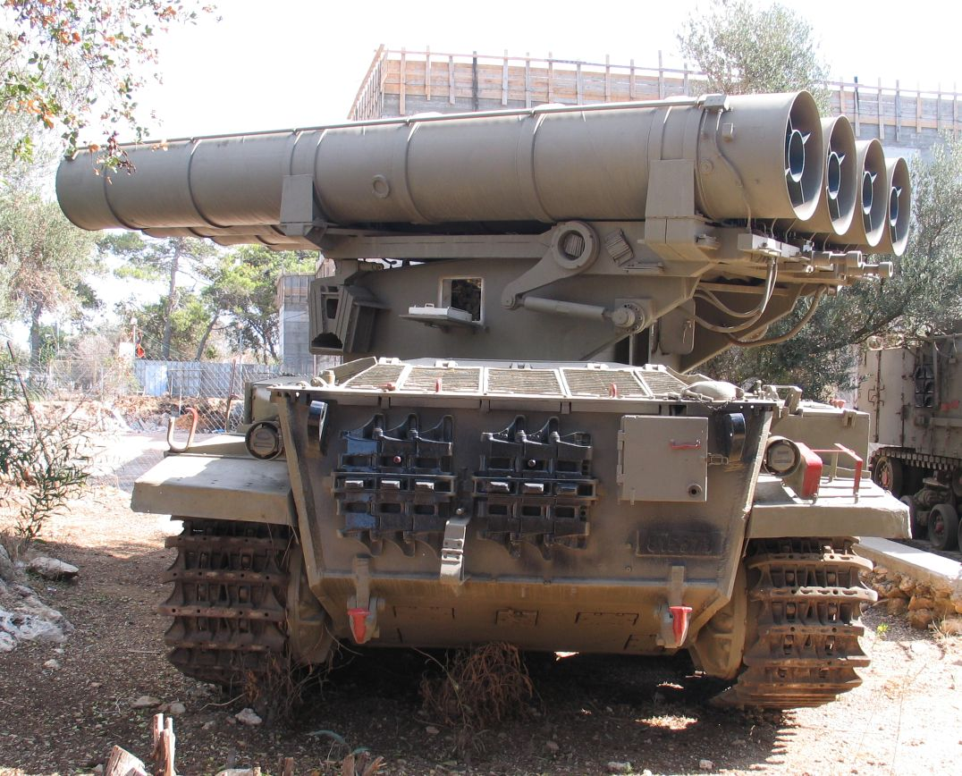 Description: Israeli MAR-290 290 mm ground-to-ground missile launcher on Centurion tank chassis in Beyt ha-Totchan, Zichron Yaakov, Israel. 2005. Source: Photo by me, User:Bukvoed.